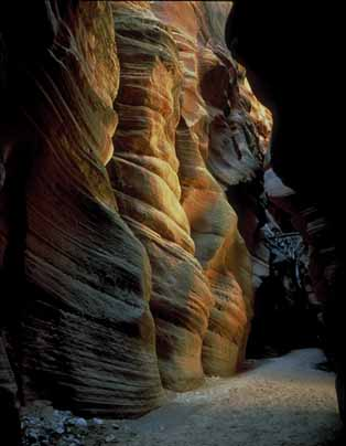 Paria Canyon in Vermilion Cliffs National Monument, Arizona